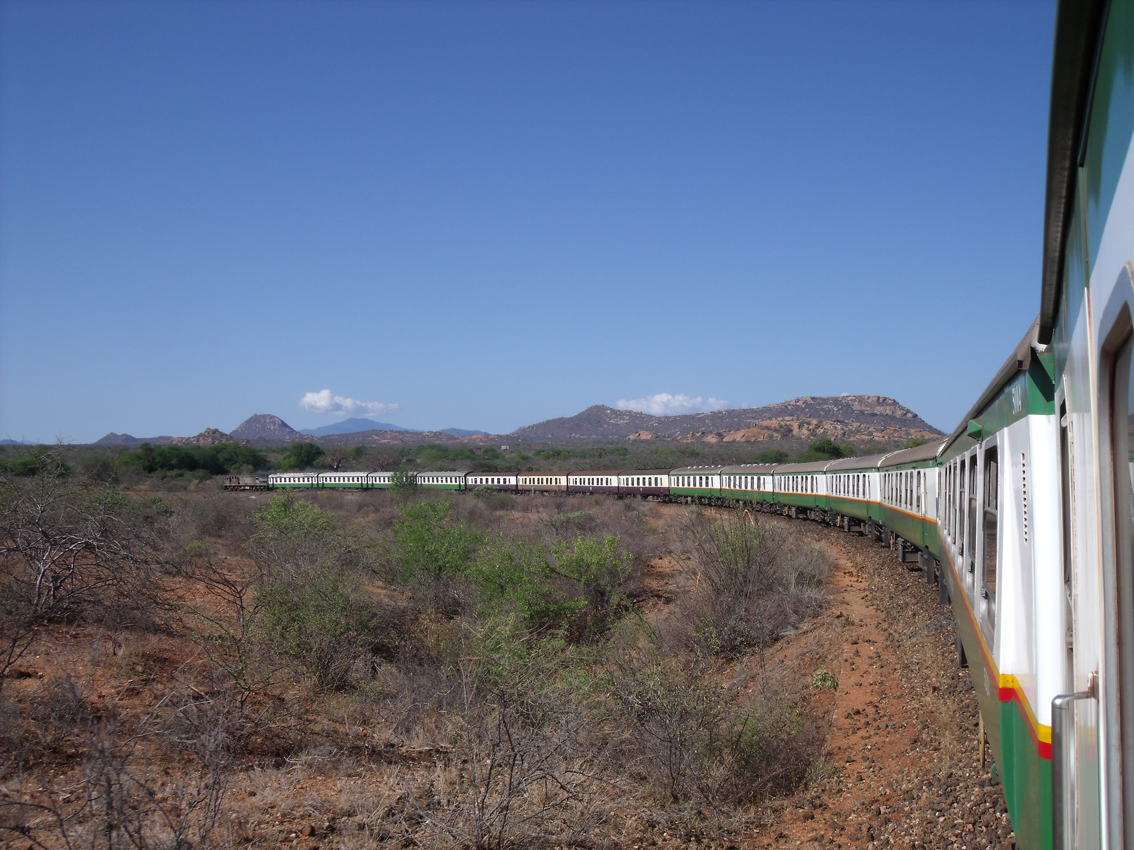 This is from the middle of the train! Mt Kilmanjaro just visible in the distance, below the clouds to the left.